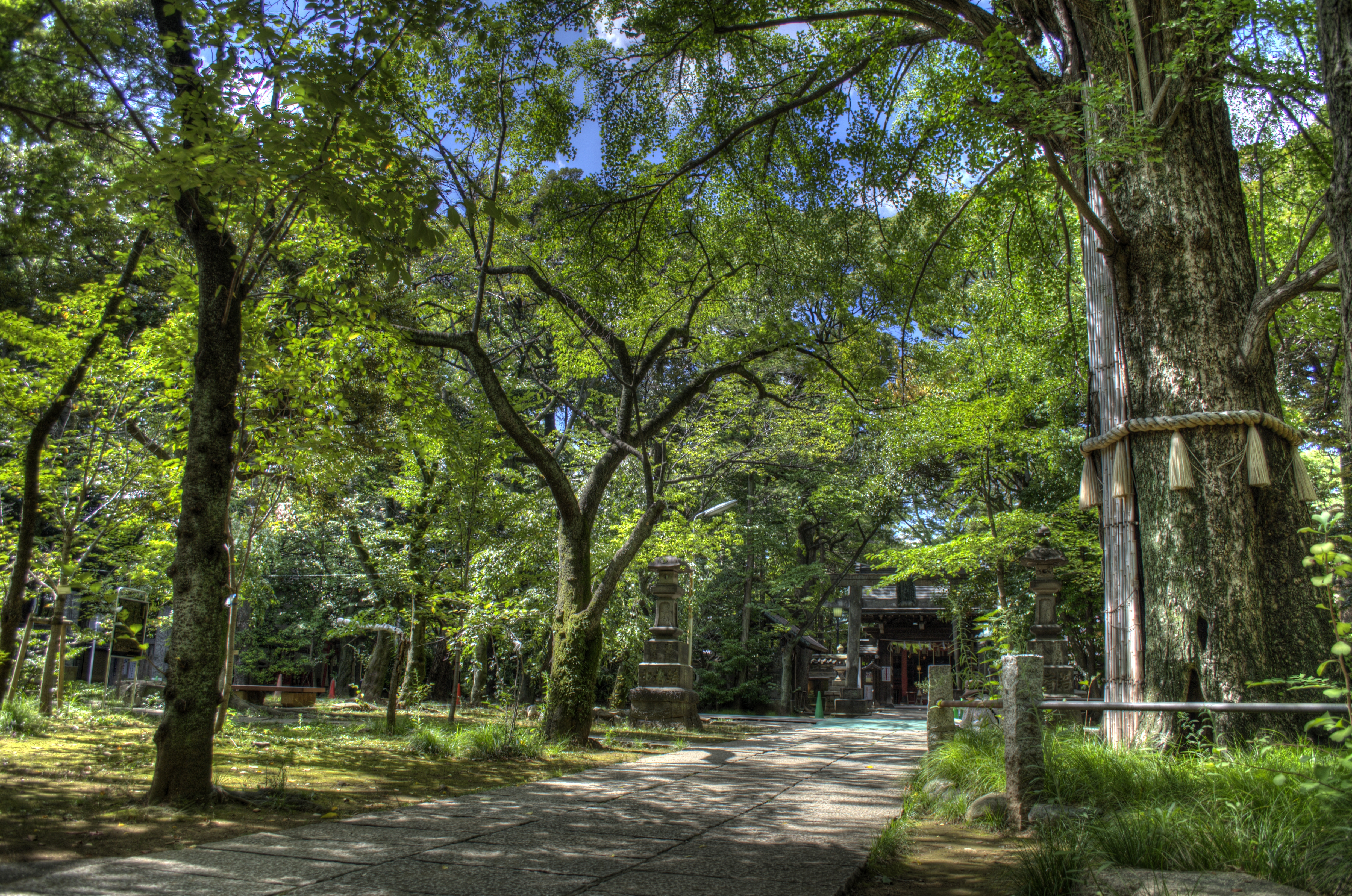 Akasaka Hikawa Shrine, a Shintō shrine in Tokyo.